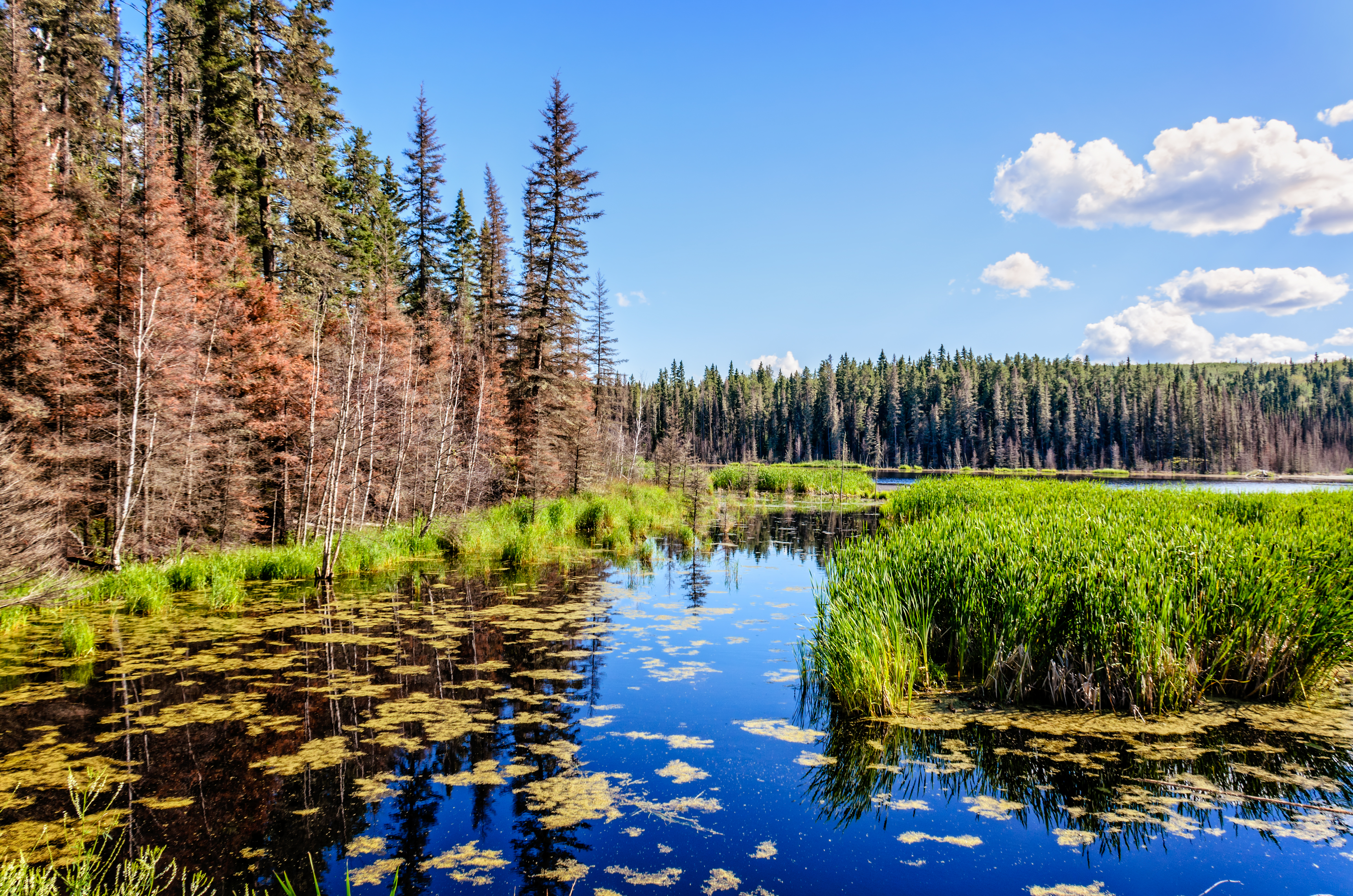 Lake with green grass, coniferous trees, reflection in the water, blue sky and white clouds on a summer day This photo was taken in a protected area in Canada, Wikidata item Prince Albert National Park (Q1122878)